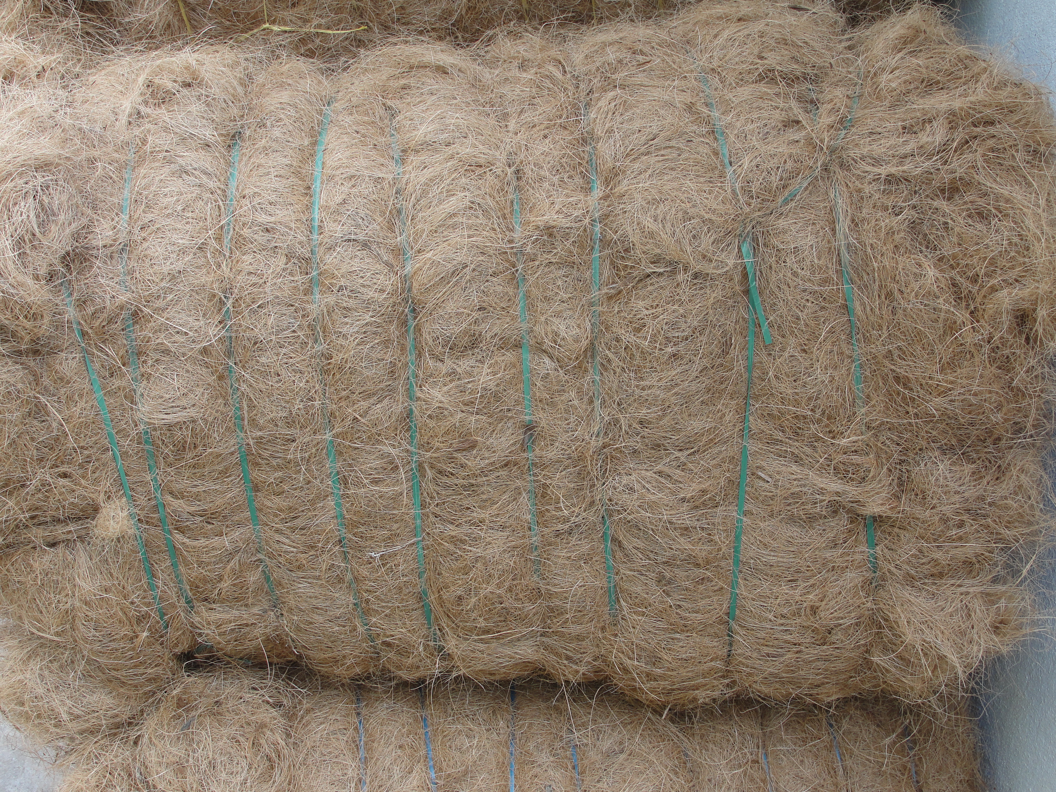 This photo depicting a bundle of coir pith used for rope making.Unknown இப்படத்தில் தென்னை நார் கட்டு உள்ளது.